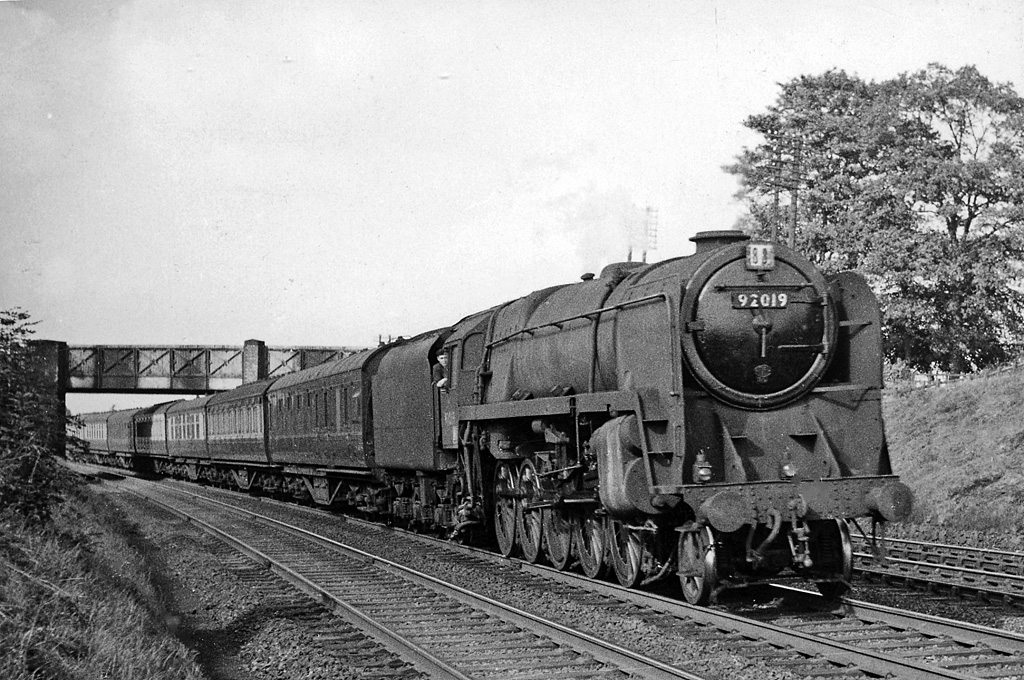 Up Empty Stock train near Napsbury, Near to London Colney, Hertfordshire, Great Britain. View northward, towards St Albans, Bedford and the North; ex-Midland main line, London St Pancras - Bedford - Leicester and the North. The train is being hauled by a BR Standard 9F 2-10-0 (No. 92019), which were well able to run at express speed.